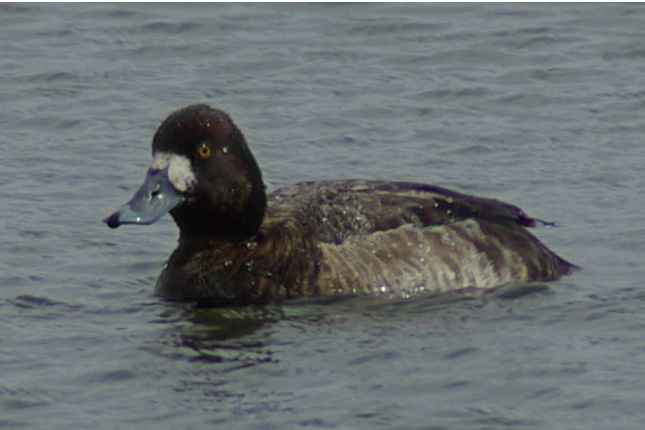 Female Lesser Scaup, Aythya affinis, Rio Grande Nature Center State Park, New Mexico, USA.